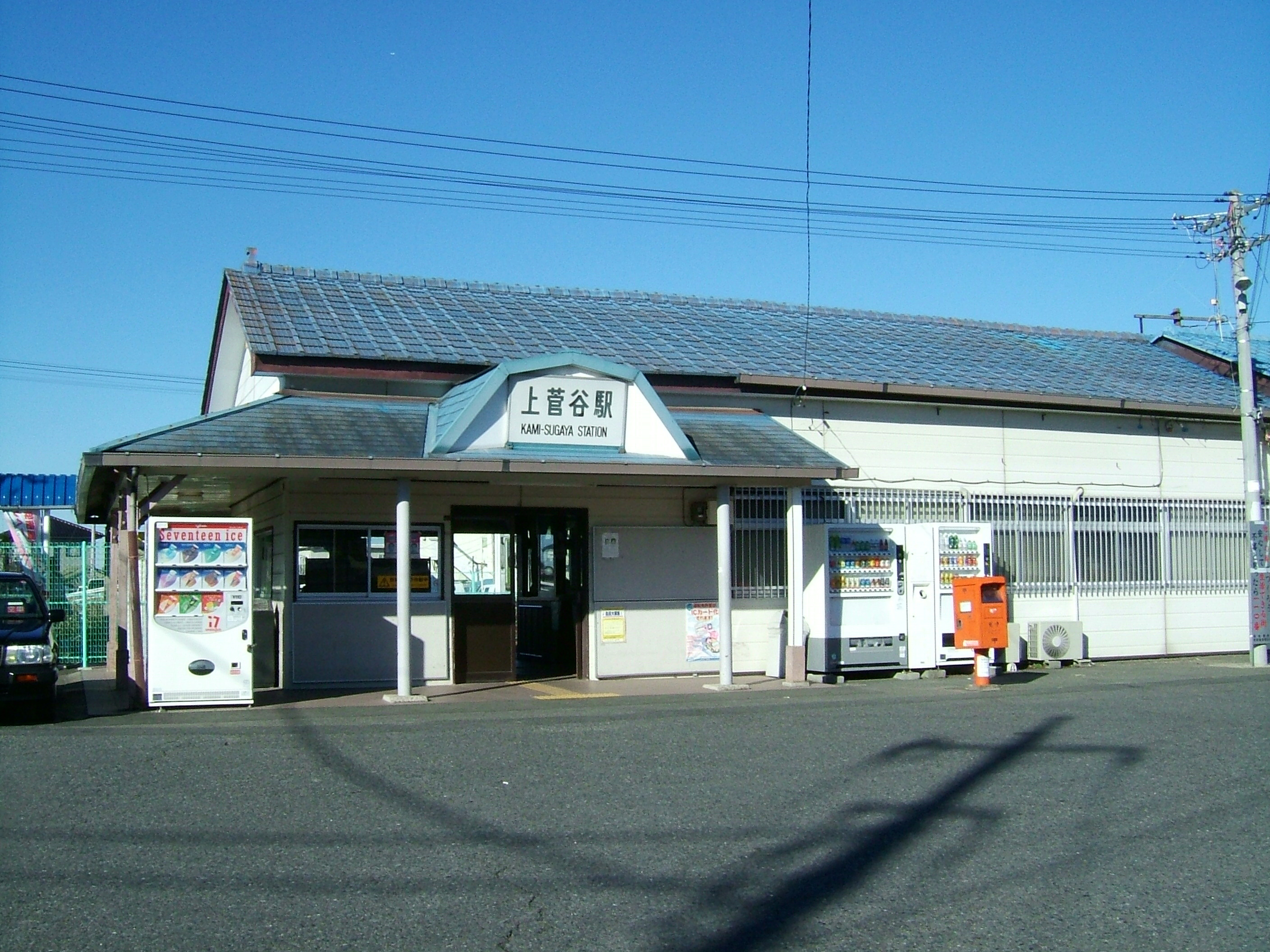 Kami-Sugaya Station